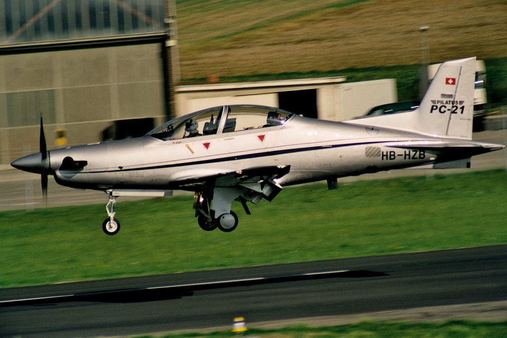 Pilatus PC-21 a l'atterrissage Payerne (LSMP)